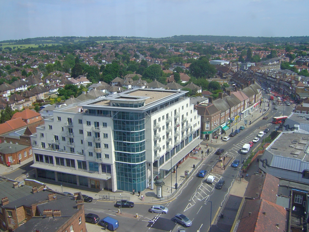 Edgware, Middlesex